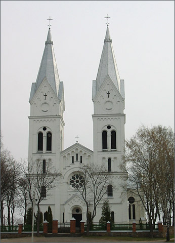 catholic church in Alanta, Lithuania